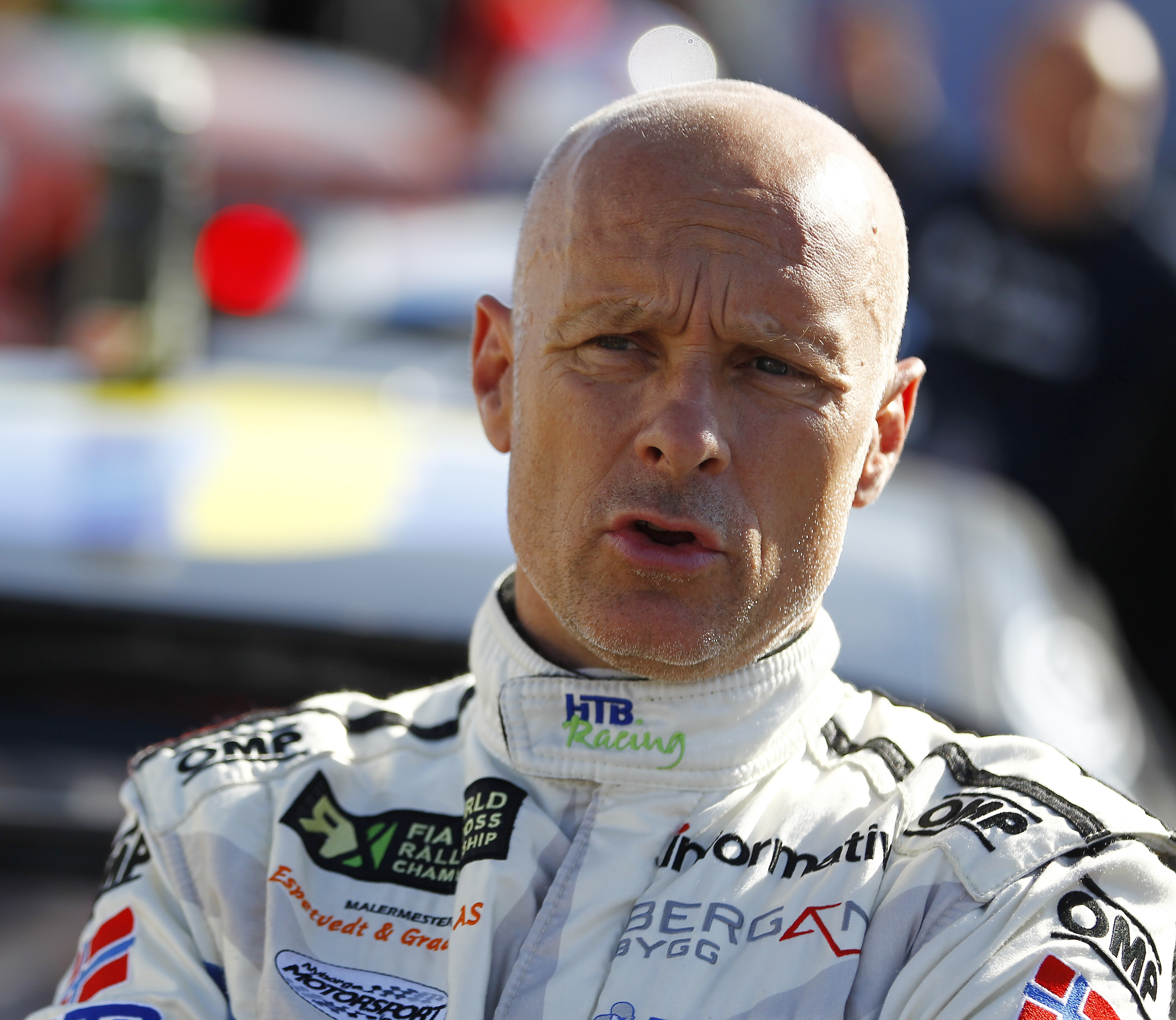 Norwegian driver Tommy Rustad at Round 3 of the 2015 FIA European Rallycross Championship at Lånkebanen, Norway.